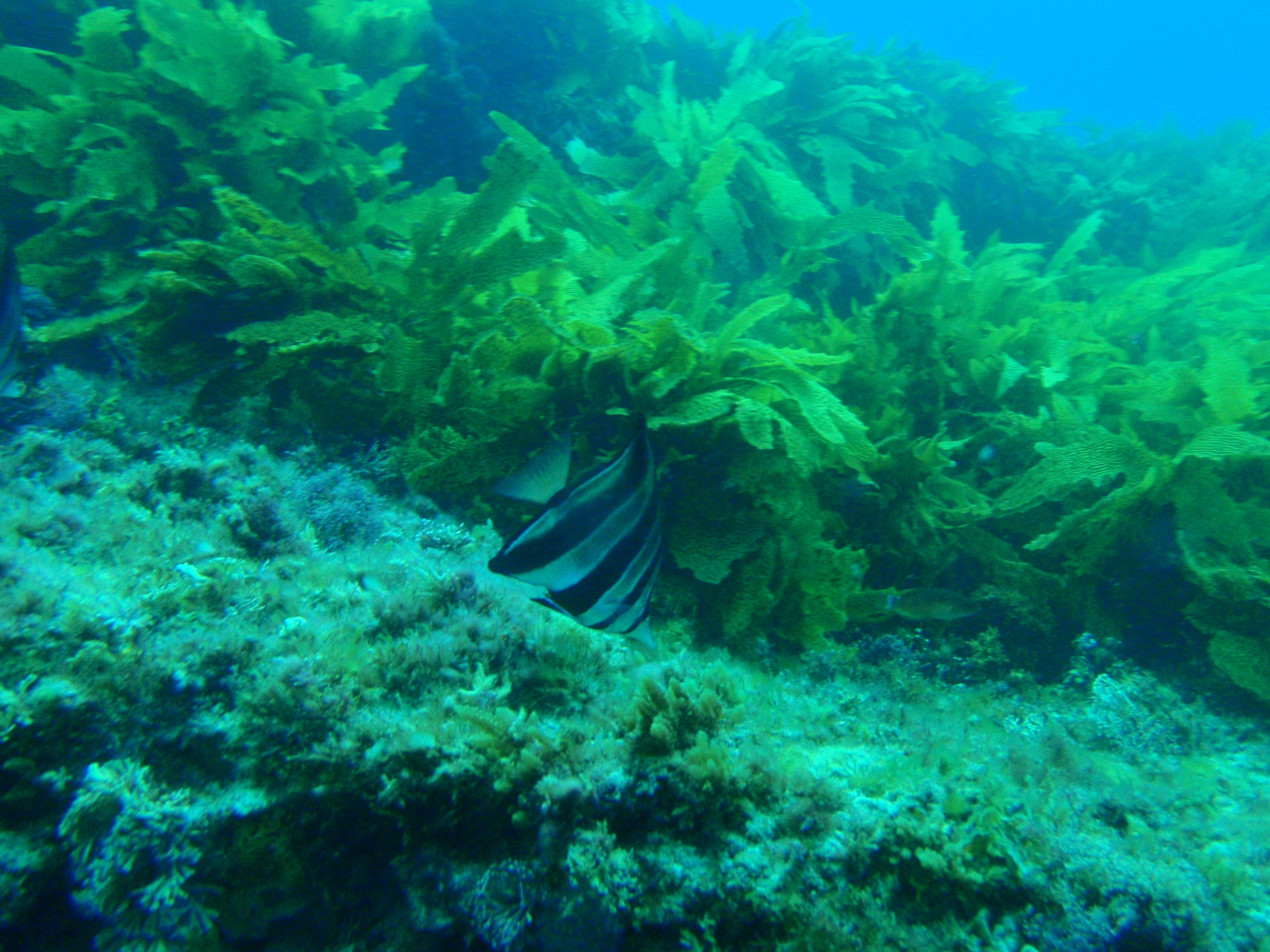 King wrasse at Rottnest Island